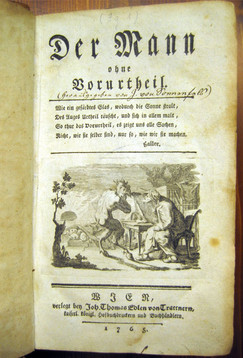 Cover of the first issue of the magazine 'Der Mann ohne Vorurtheil'